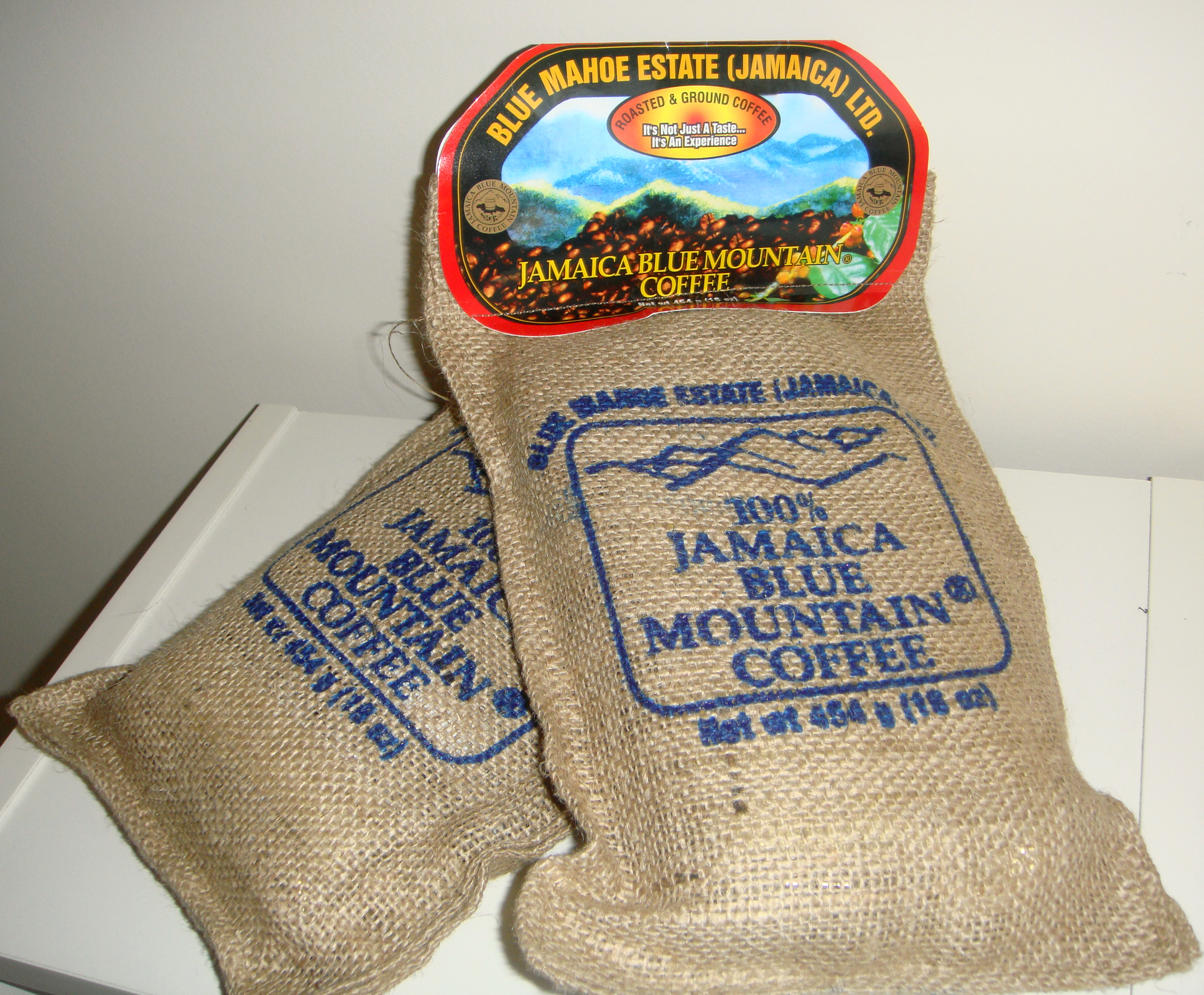 Illustrative pic of Jamaican Blue Mountain Coffee